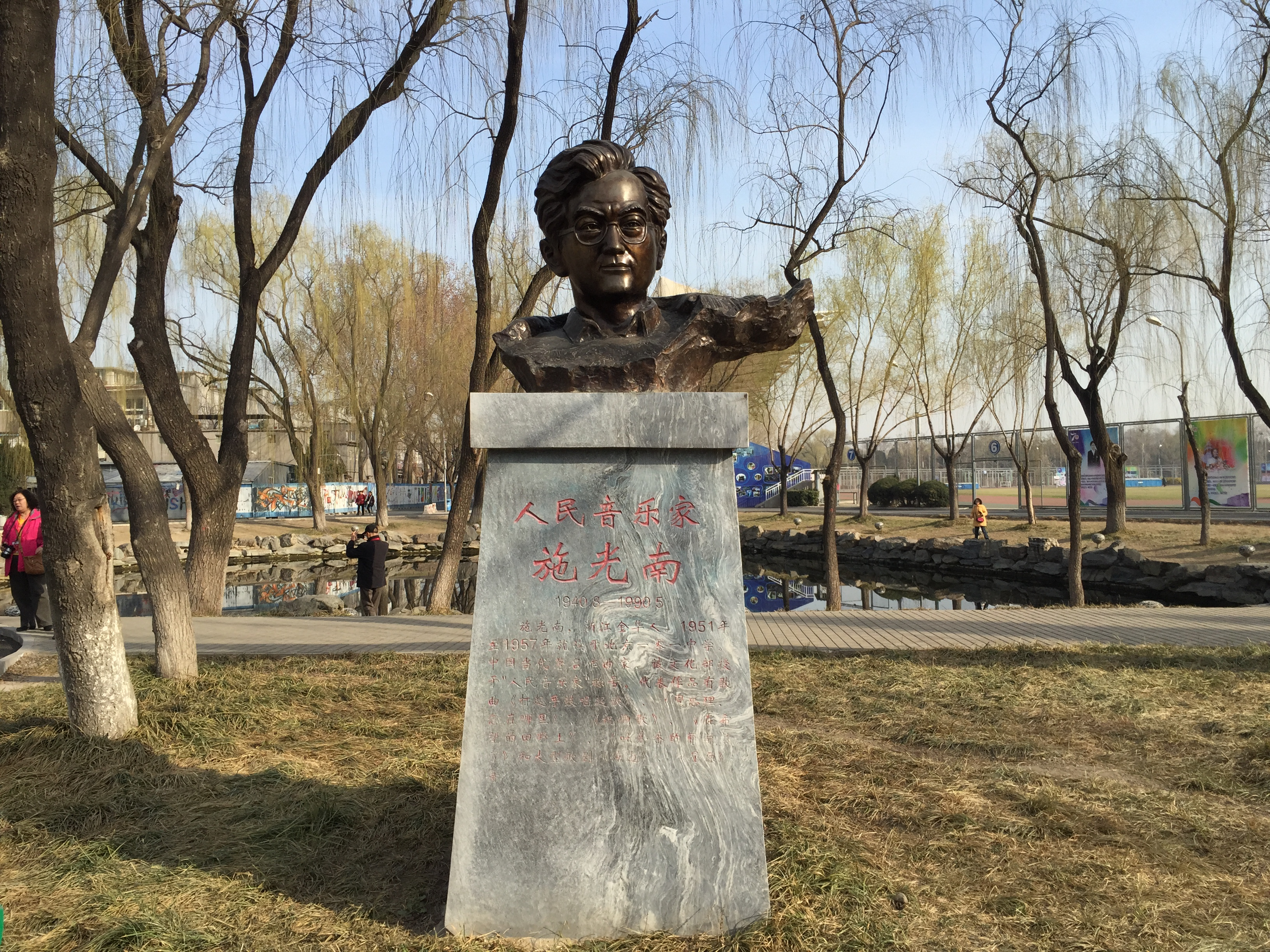 Shi Guangnan (1940-1990) was a well-reputed composer in the 1970s-1980s.